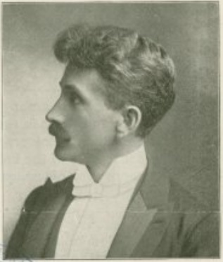 Photograph of J. Howard Moore, circa 1899.